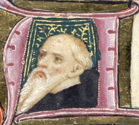 John Gower portrait; from BL Add MS 42131; identified by Sylvia Wright. See "The Author Portraits in the Bedford Psalter-Hours: Gower, Chaucer and Hoccleve". Held and digitised by the British Library.